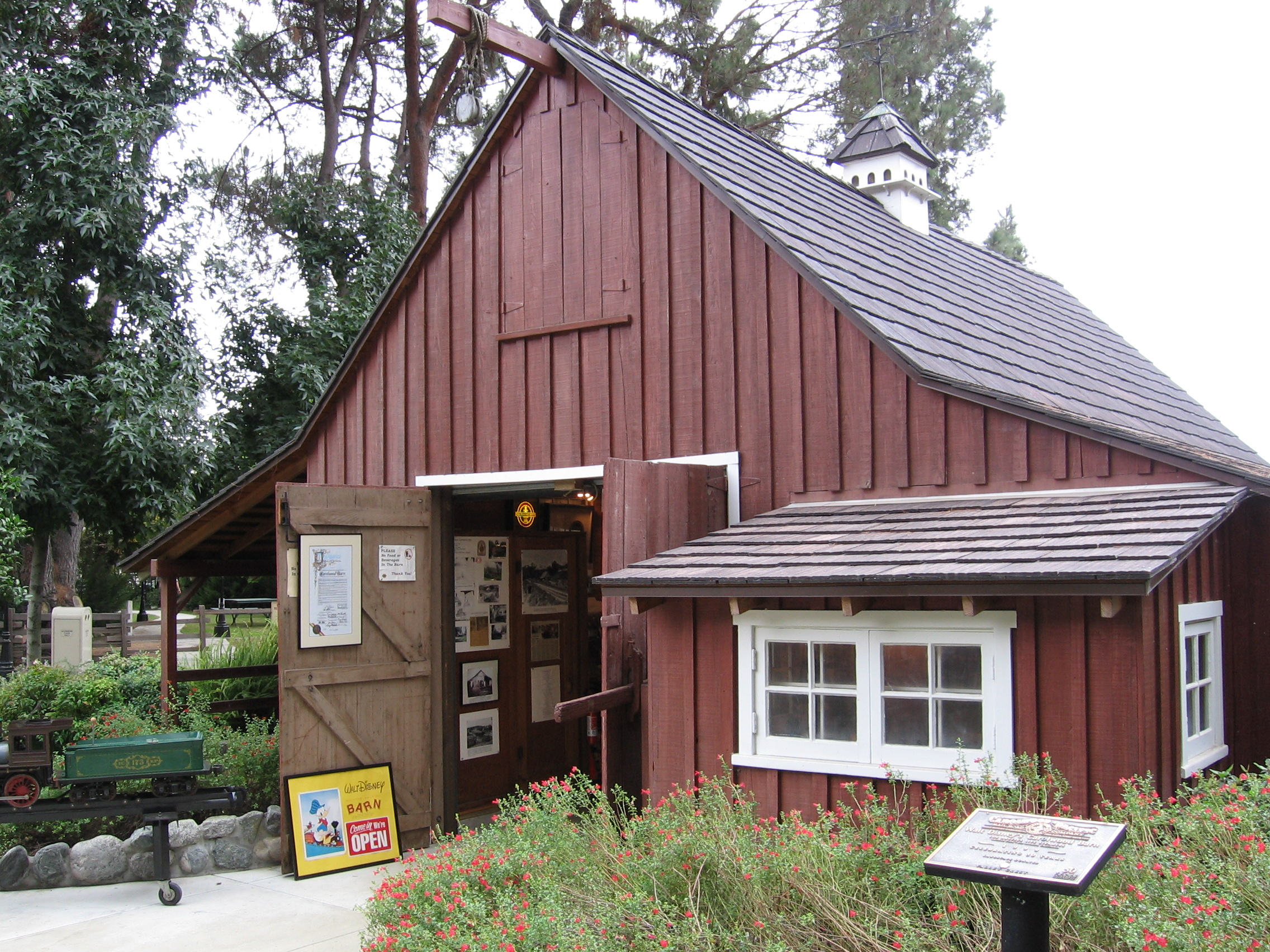 Музей Walt's Carolwood Barn